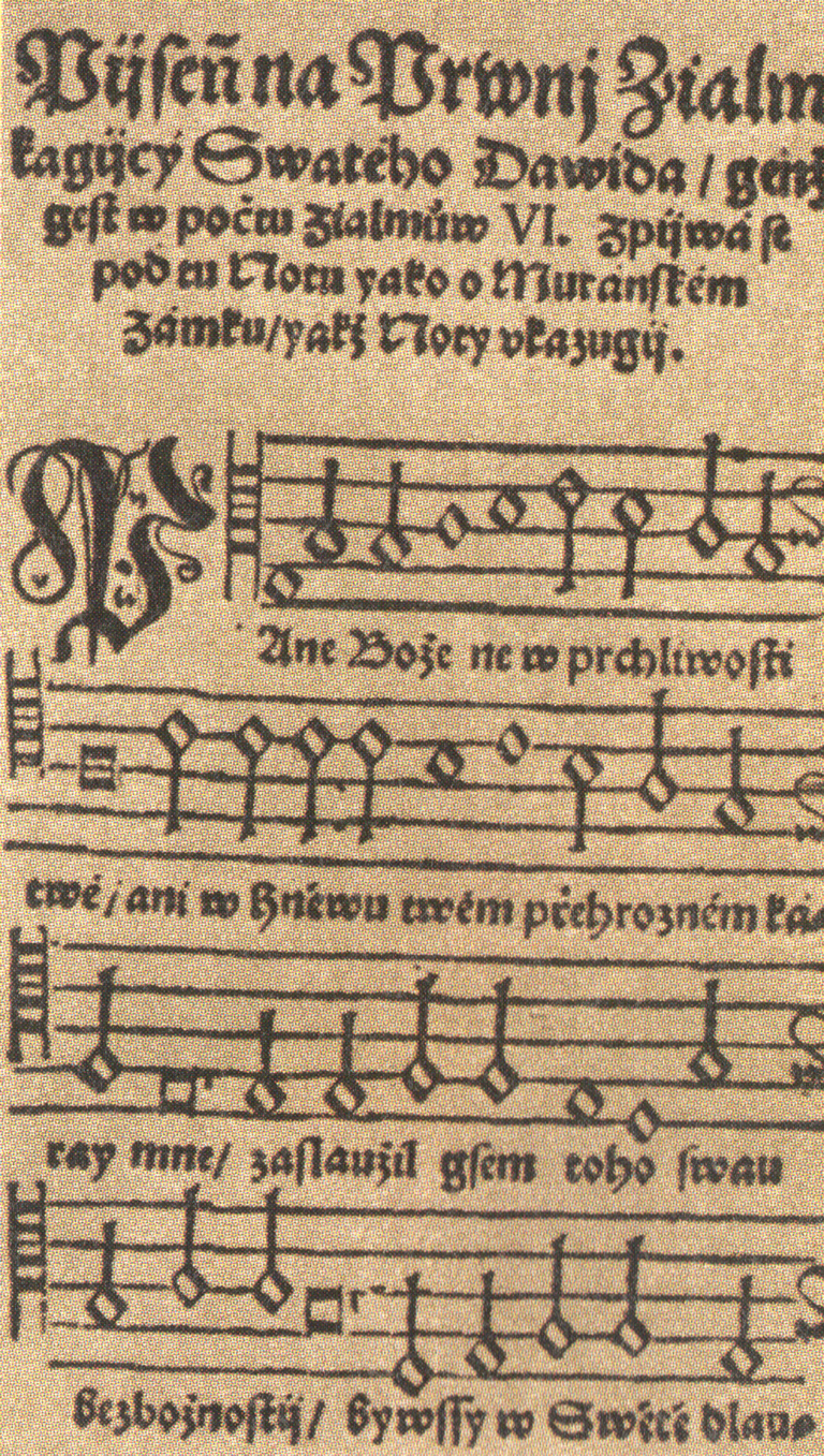 Ján Silván (1493 – 1573): Písně nové a na sedm žalmů kajících a jiné žalmy (Praha 1571)